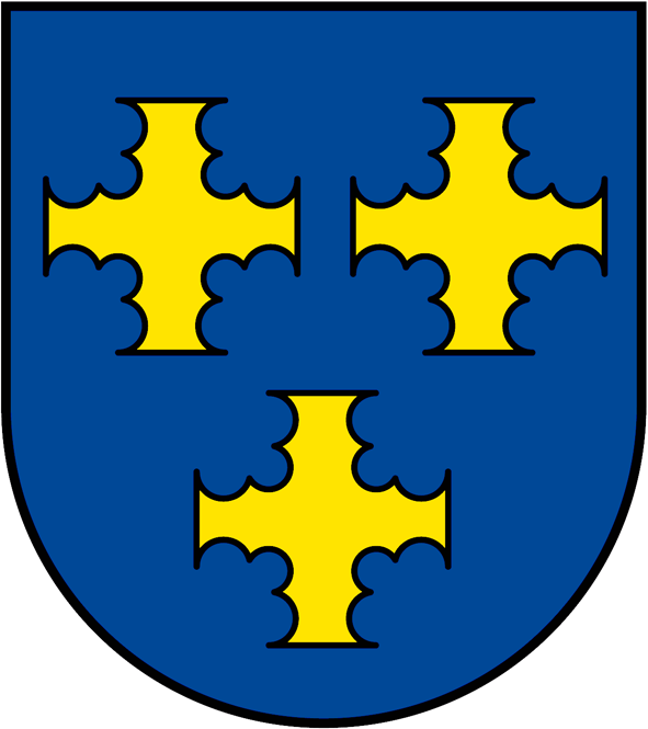 Coat of arms of Womrath